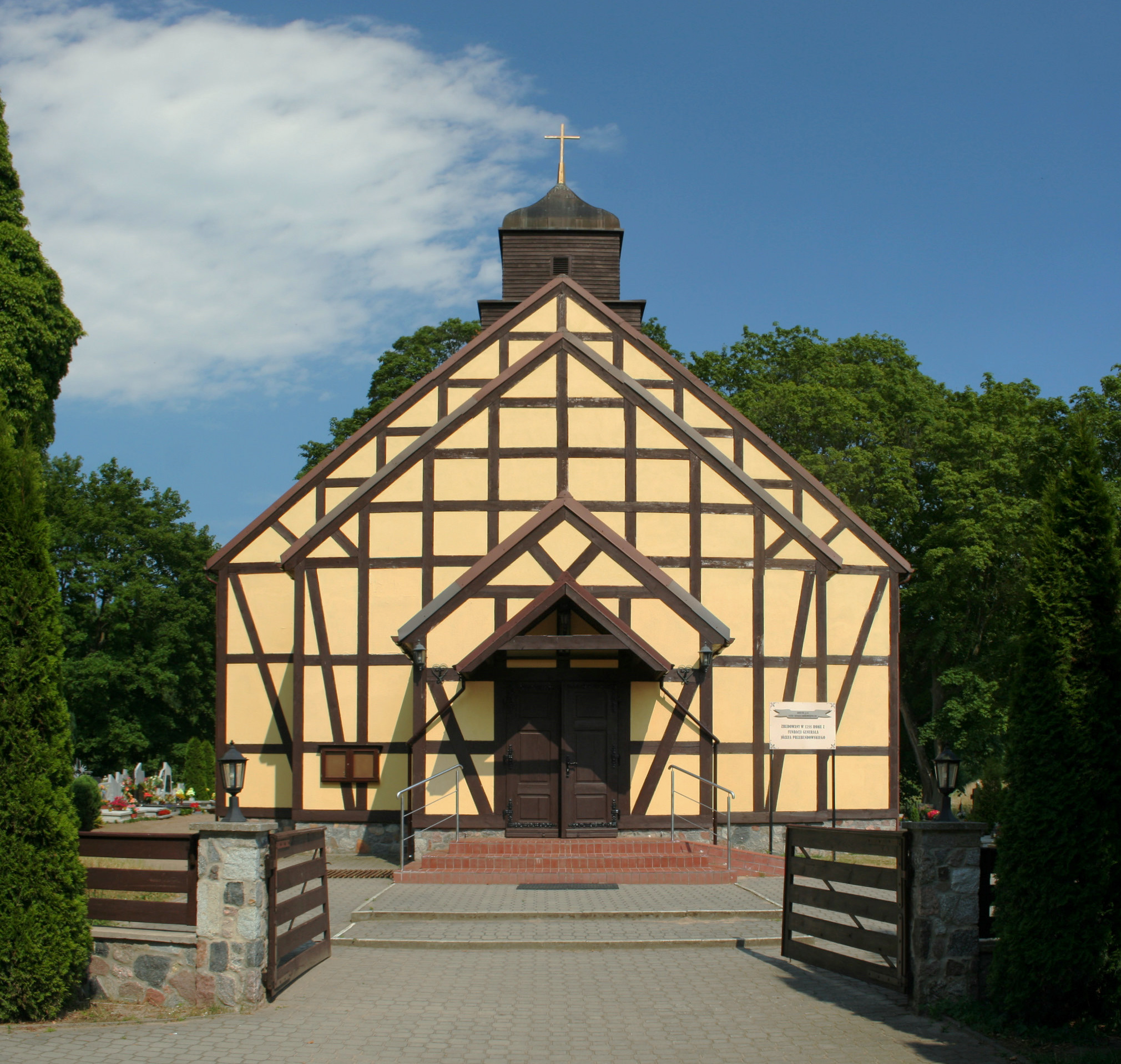 Church in Tyłowo.